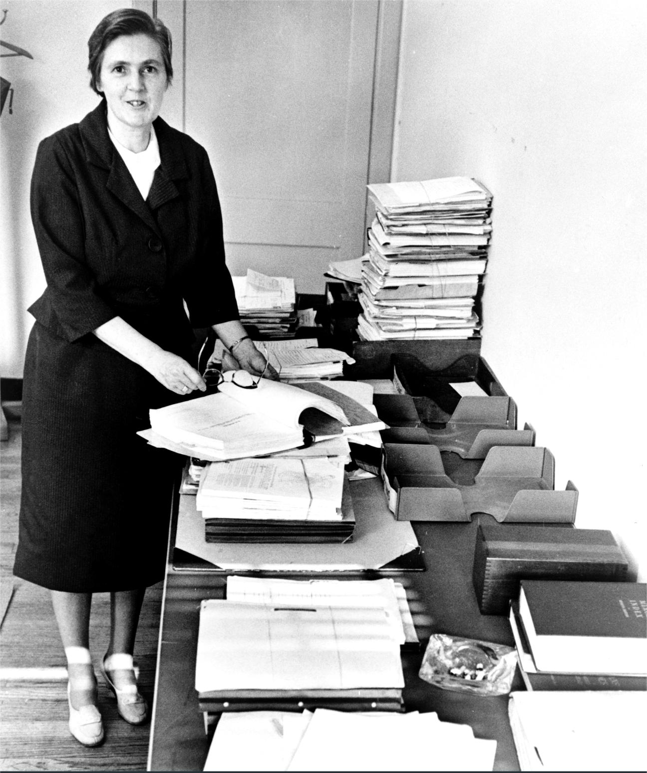 Dr. Frances O. Kelsey, pictured here in the 1960s, spent most of her career at FDA overseeing scientific investigations of drugs. For more information about FDA history visit